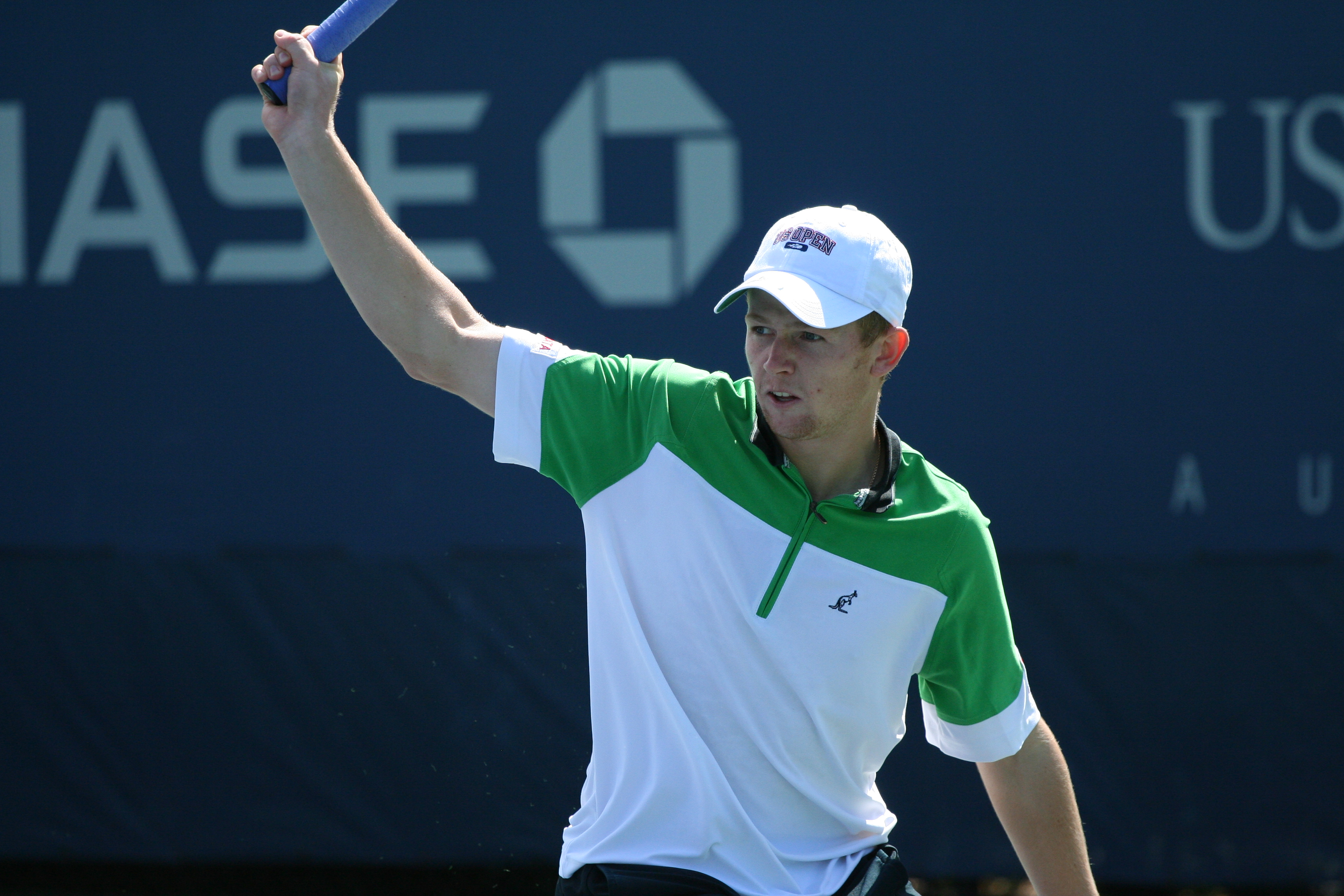 U.S. Open Thursday, Sept. 3